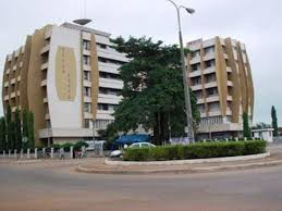 sunyani cocoa board